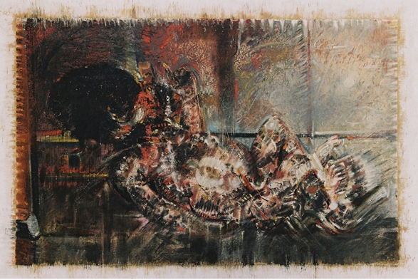 1 Painting Infanticidio (Infanticide) by Antonio García Vega[1]